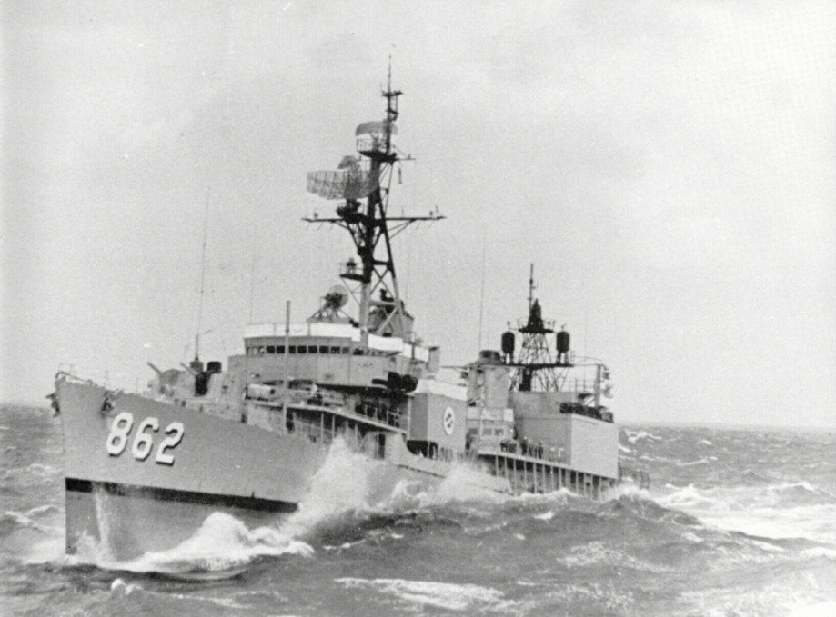 The U.S. Navy destroyer USS Vogelgesang (DD-862) in heavy seas. The photo was taken after her FRAM I conversion.